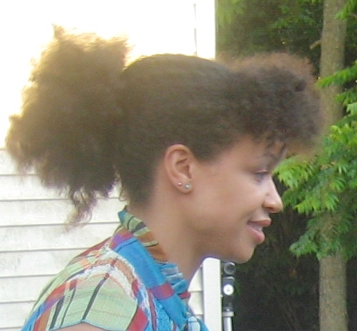 Dancer singer actress Nicolle Rochelle, in New Orleans April 2009.